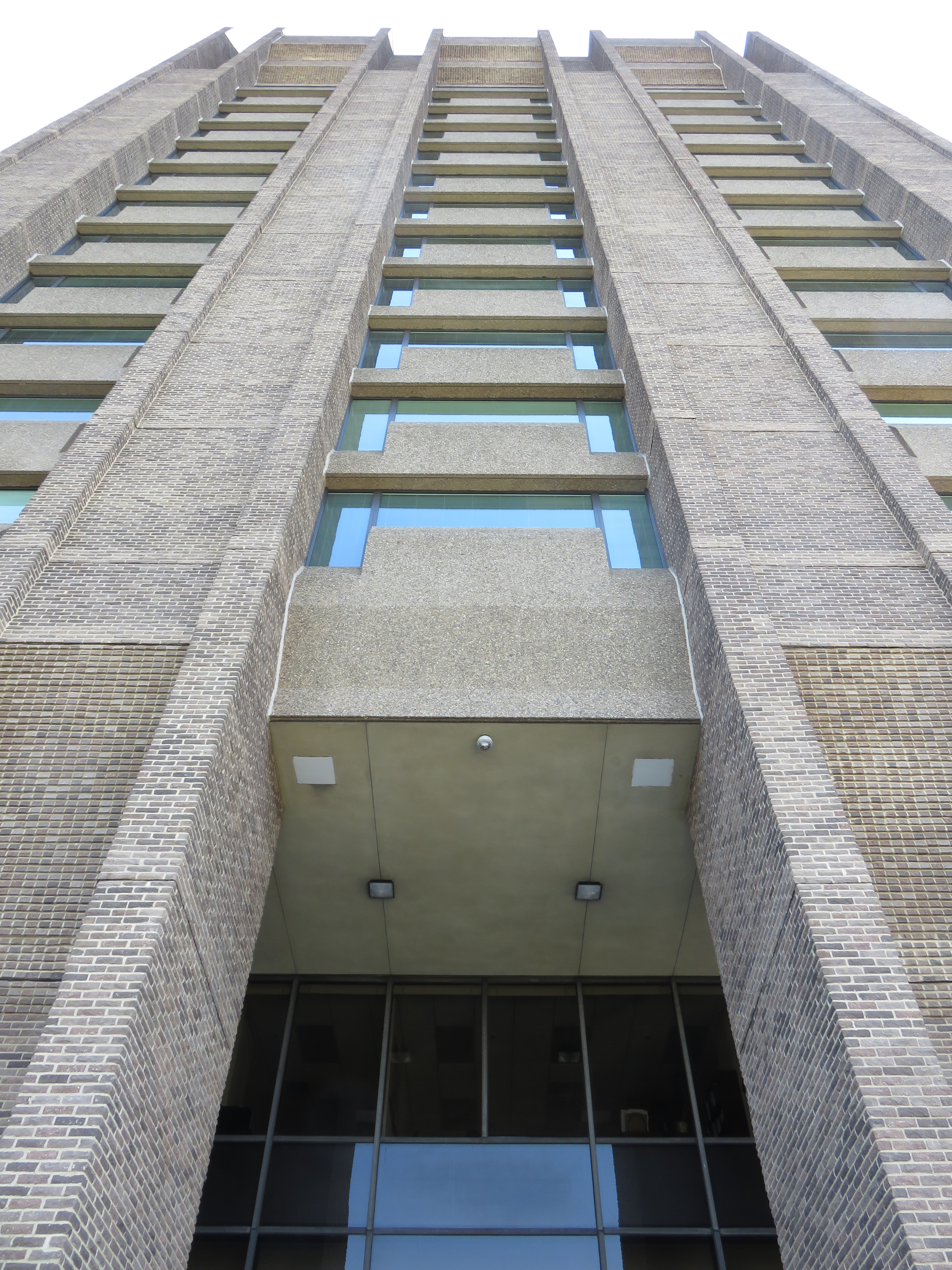 Exterior of the United States National Agricultural Library in 2018